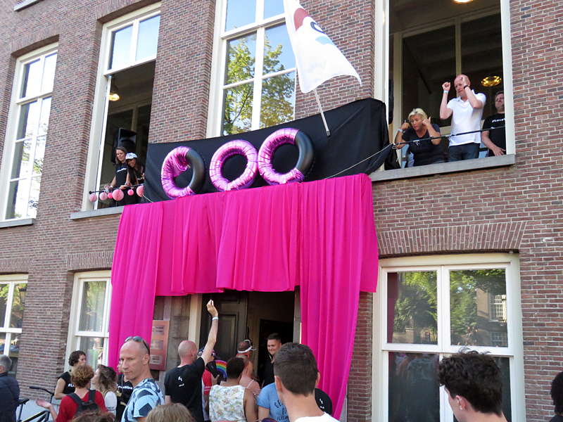 Headquarters of the Dutch LGBT rights organization COC at Nieuwe Herengracht in Amsterdam, decorated during the Amsterdam Gay Pride of 2016.